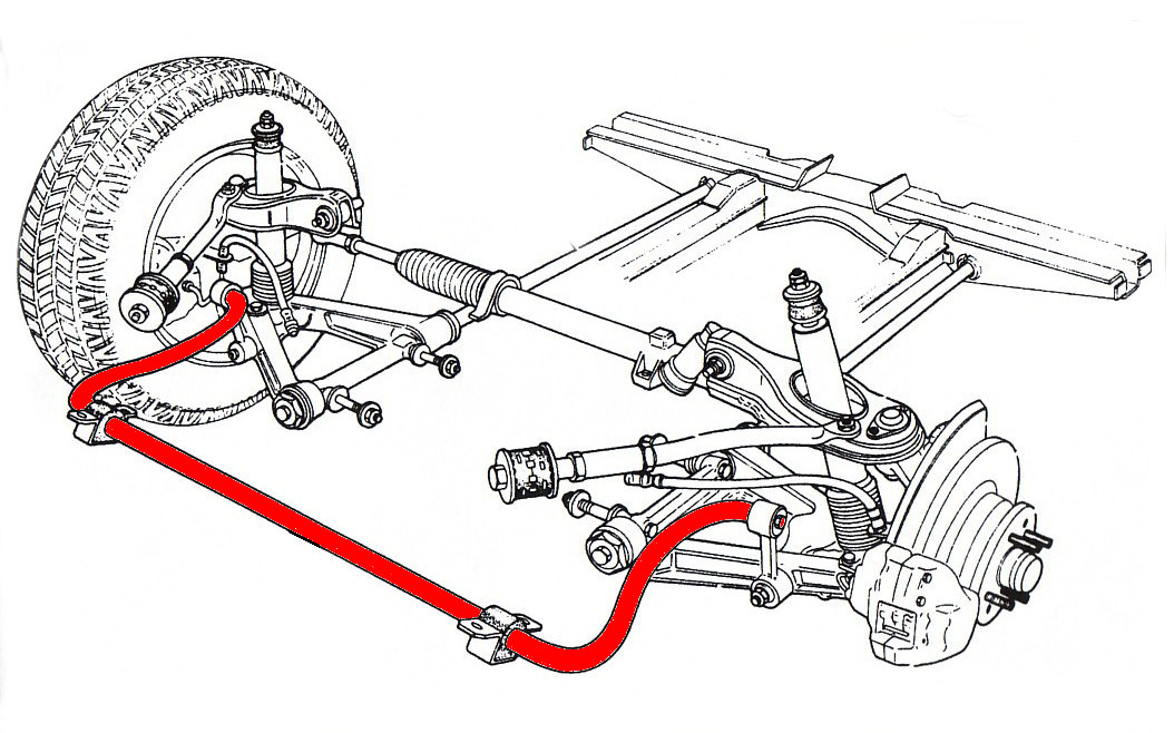 Derived from File:Alfetta_front_suspension.jpg modified to highlight anti-roll bar.